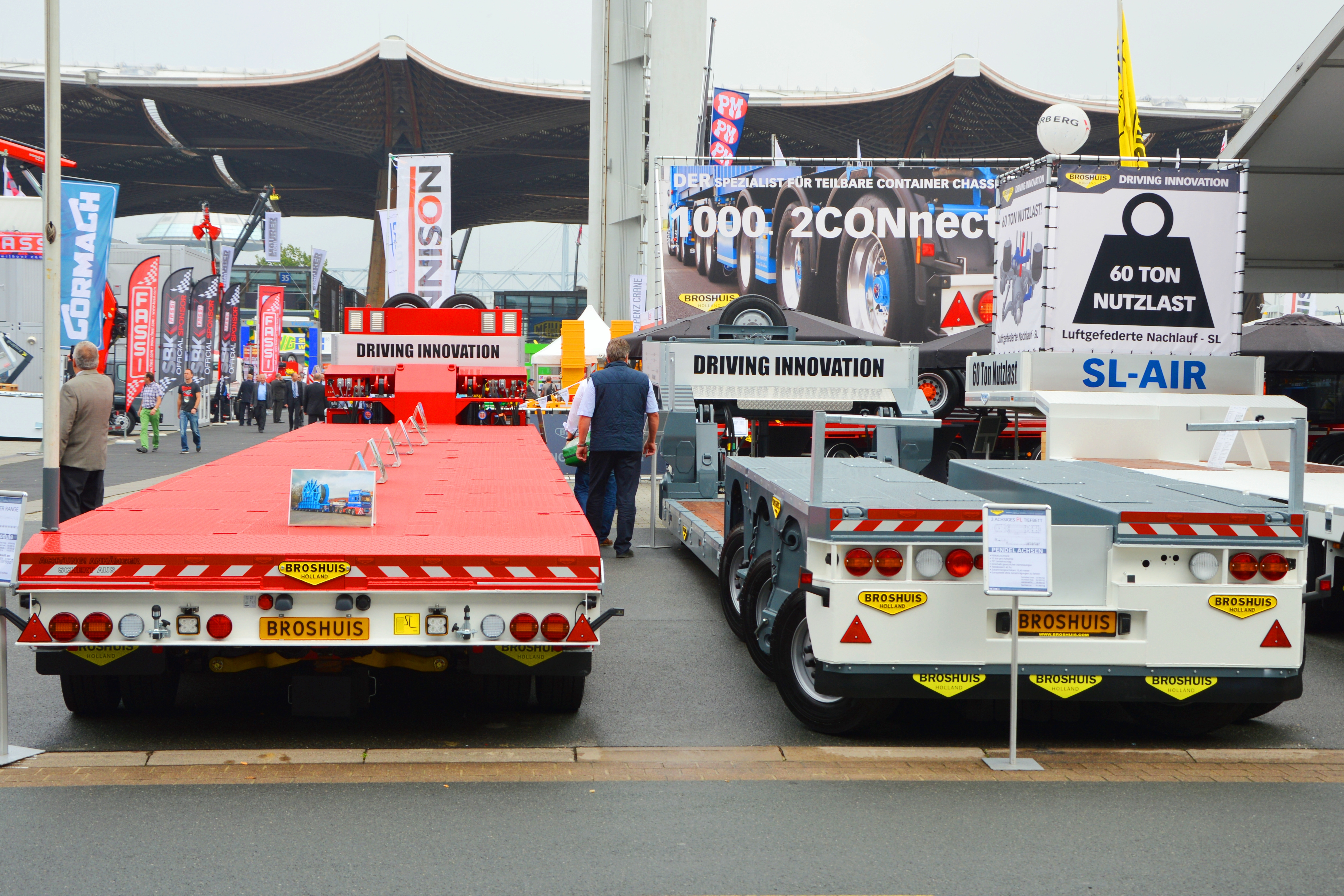 Broshuis low loader trailers: Left: 100 to Range (3+7) SL Modular Right: 3 axle low-loader PL swing-axles Photo taken at exhibition IAA 2014 in Hanover, Germany.